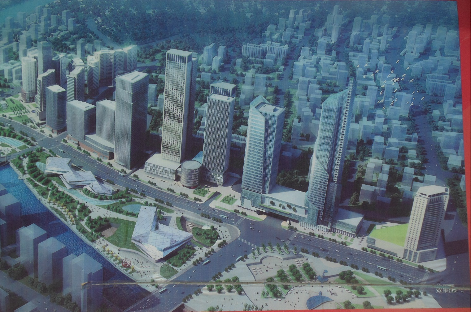 Building a new Xining (2015)